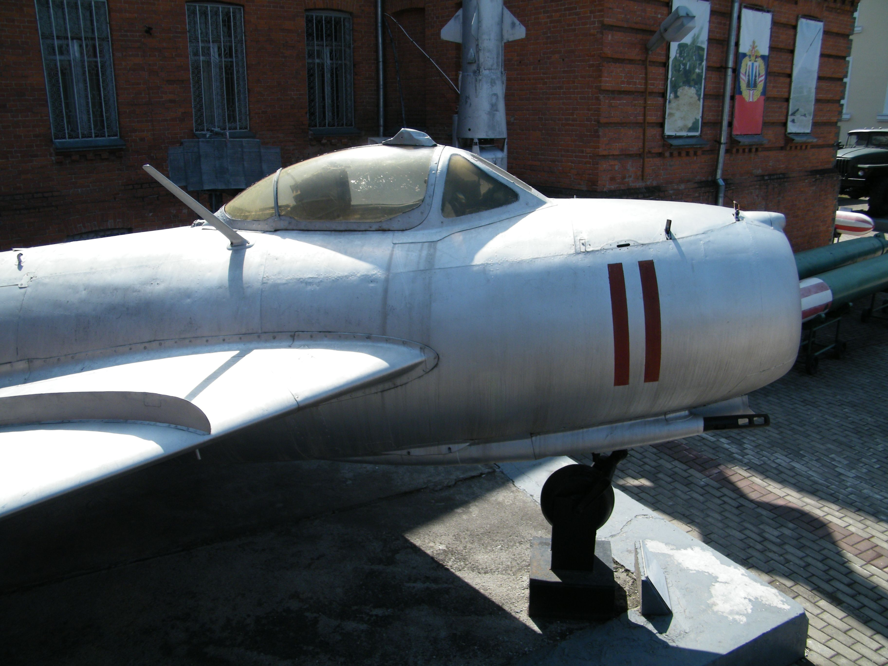 Khabarovsk Military Museum